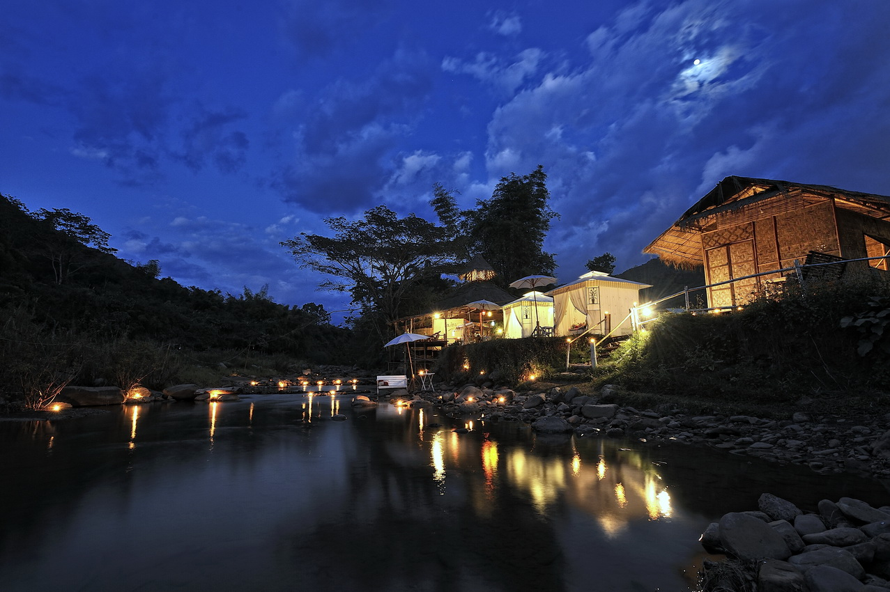 Bo Klua(Salt Wells)6